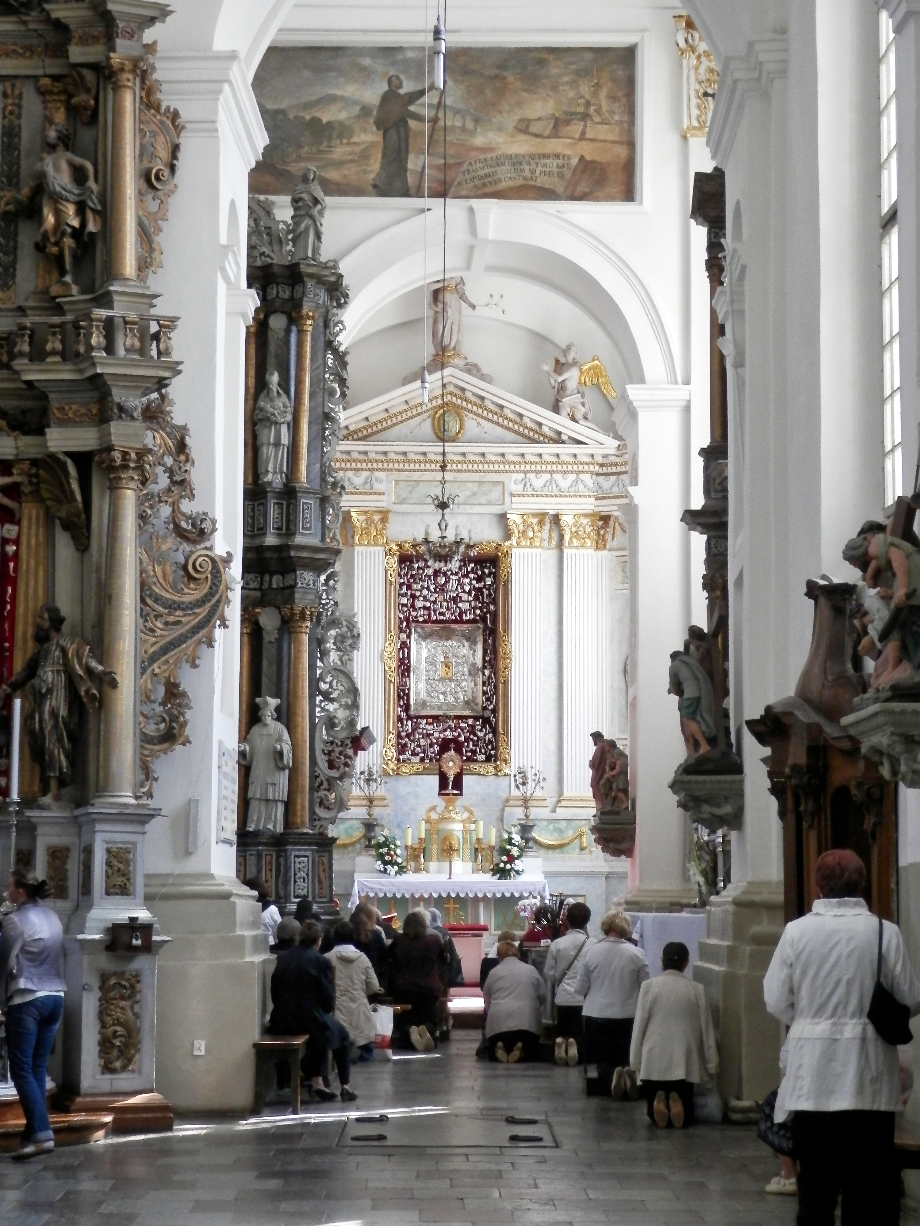 St. Francis Xavier Cathedral, Grodno